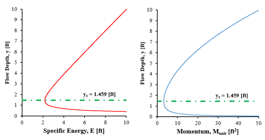 comparison of energy and momentum function curves